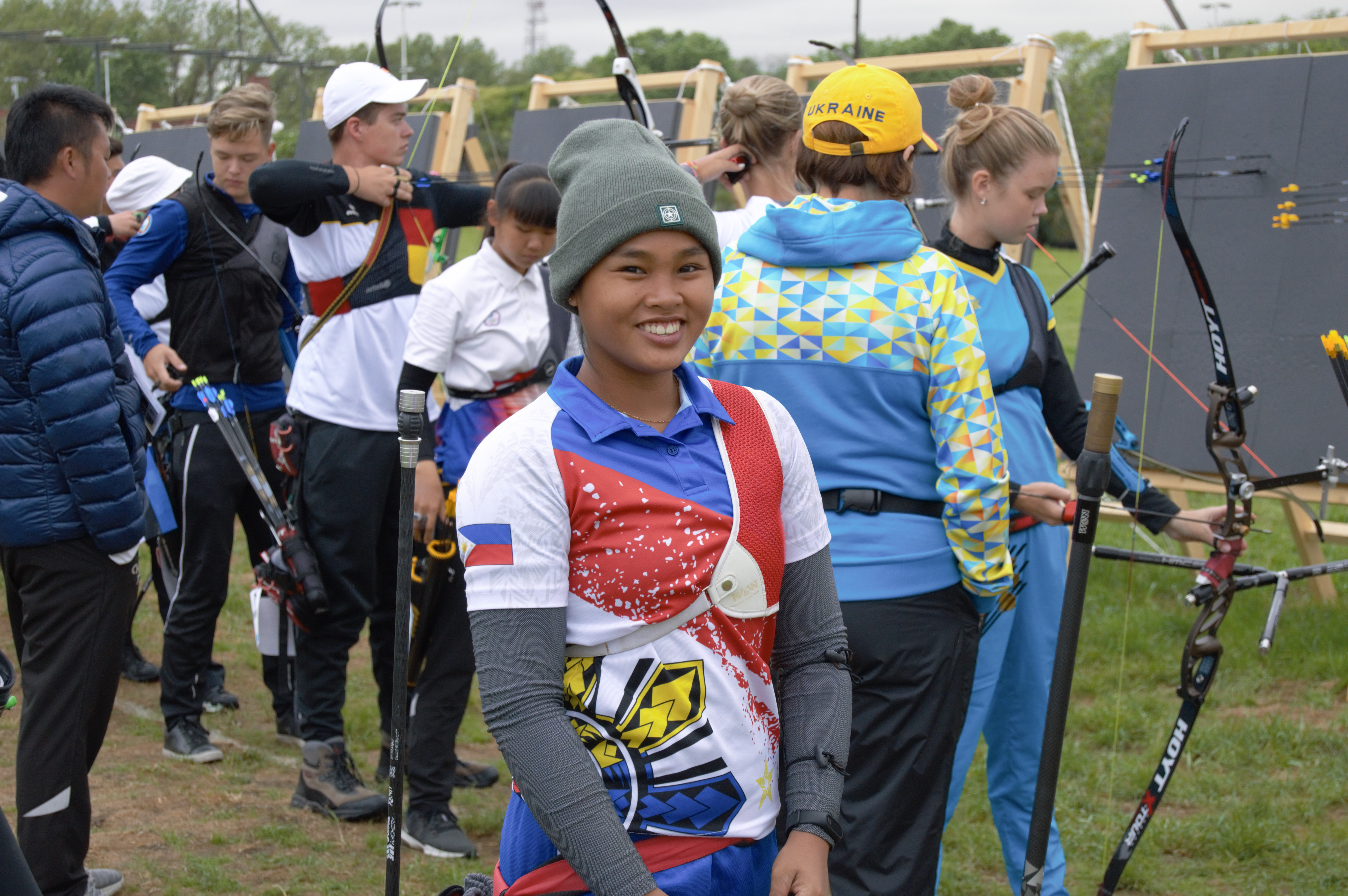 Archery at the 2018 Summer Youth Olympics. Men's/Women's Recurve Individual Ranking Round – Mixed International Team Ranking Round.